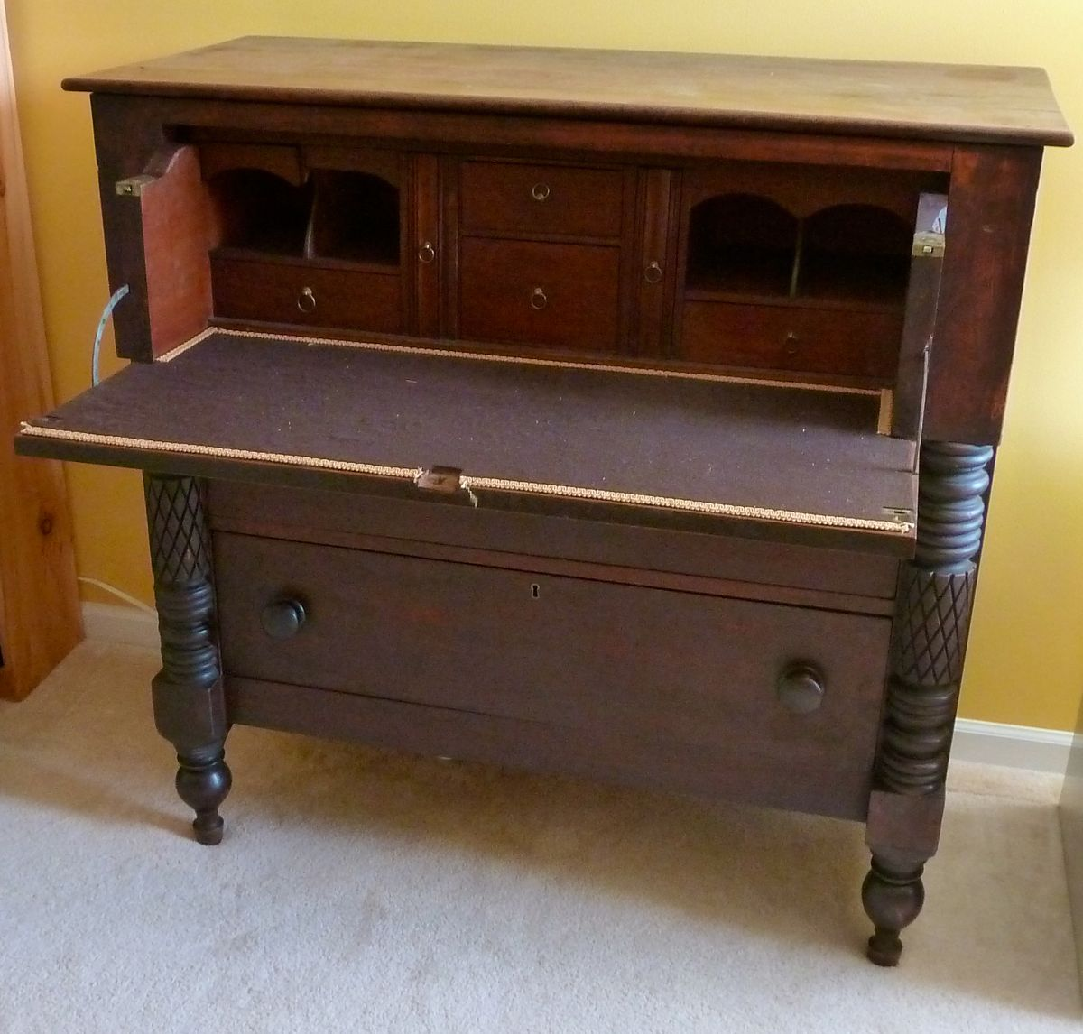 An early 19th century southern pine butler's desk from North Carolina. Photo taken by Michael Helms on December 19, 2010.